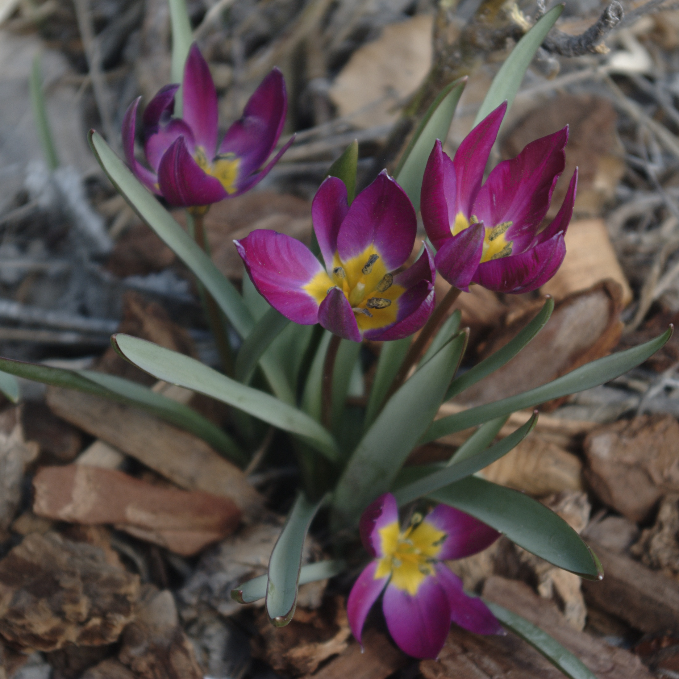 Tulipa humilis or Tulipa pulchella cultivar "Persian Pearl", partly open at a cloudy moment on a sunny day, my garden, Española, New Mexico.